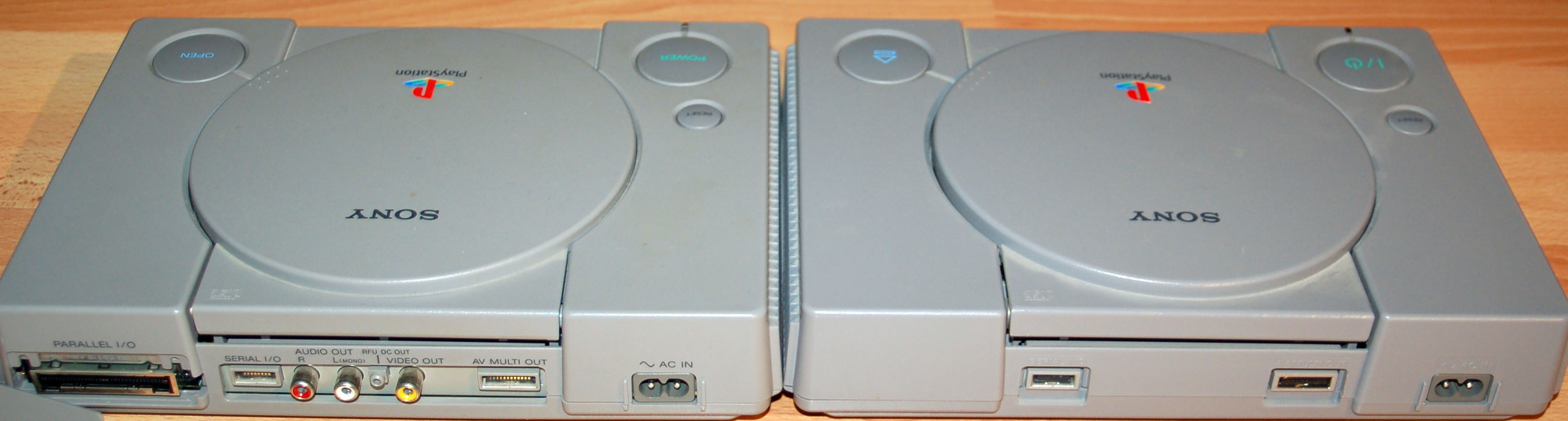 Comparsion of Playstation models SCPH-1002(left) and SCPH 9002. Differences seen are: Text on buttons replaced by symbols, Parallel I/O-port removed and RCA-out removed. Also, the printed text on the back has been replaced by reliefs of the same.